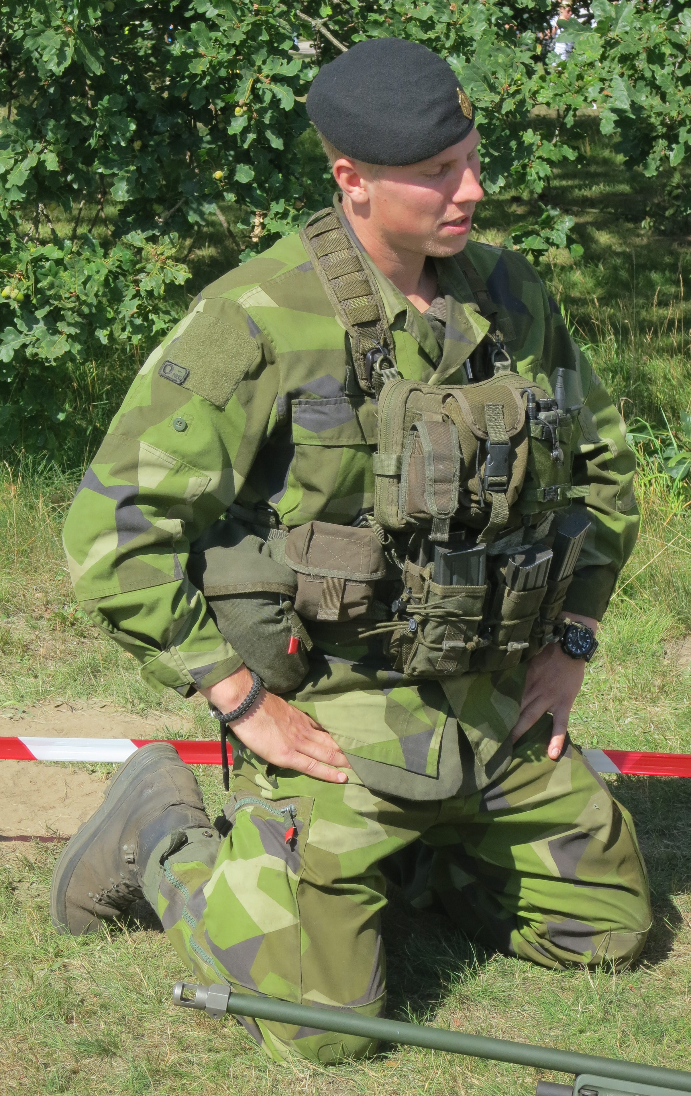 Swedish soldier in field uniform 90 with combat vest and a pansar barret